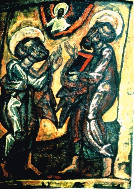 Alek Rapoport. Judeo-Christian Apostles Simon-Peter and Saul-Paul, 1995. Mixed media on jute, 32 x 24”. Collection of the artist’s family, USA.